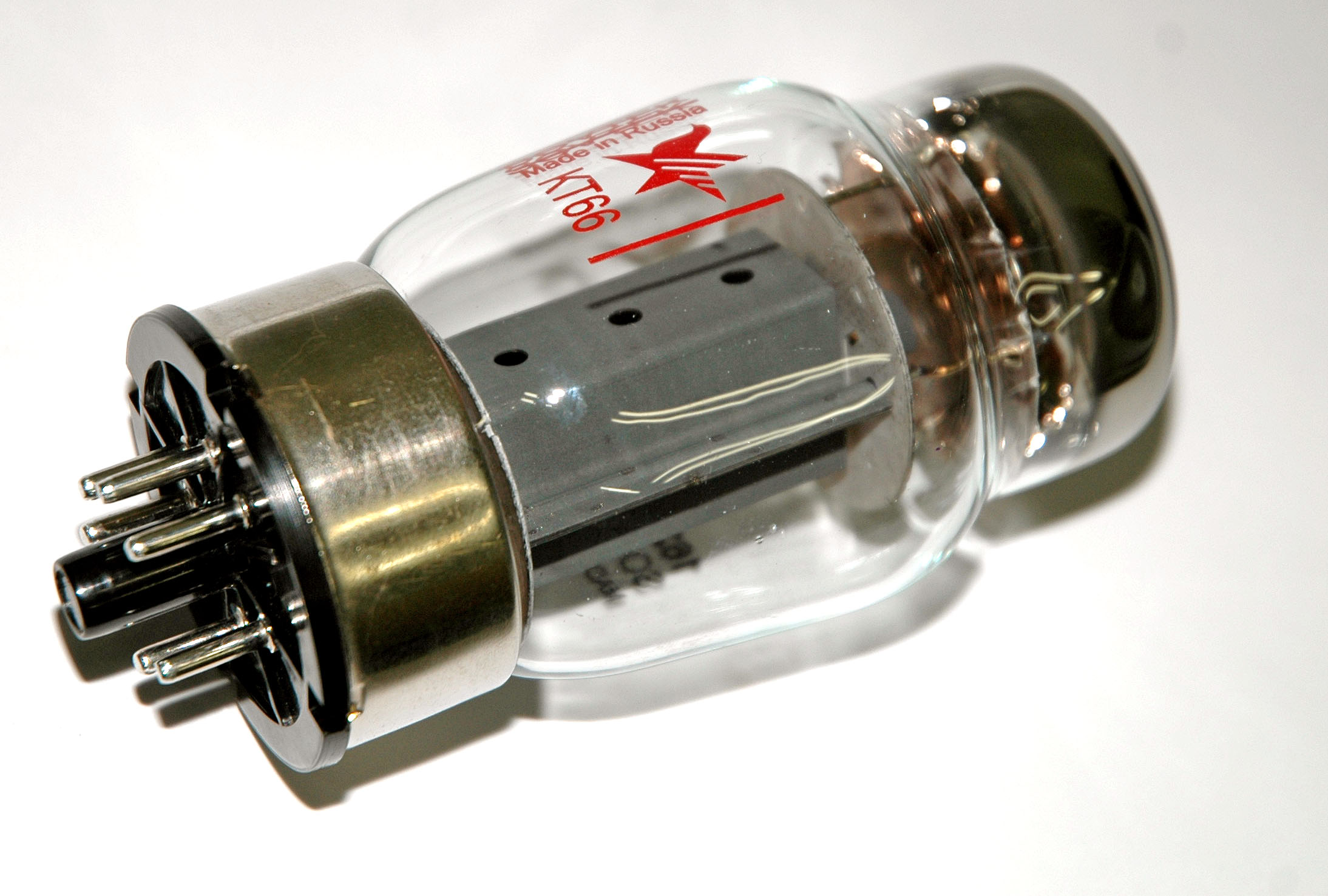 A Sovtek KT-66 power tetrode vacuum tube.